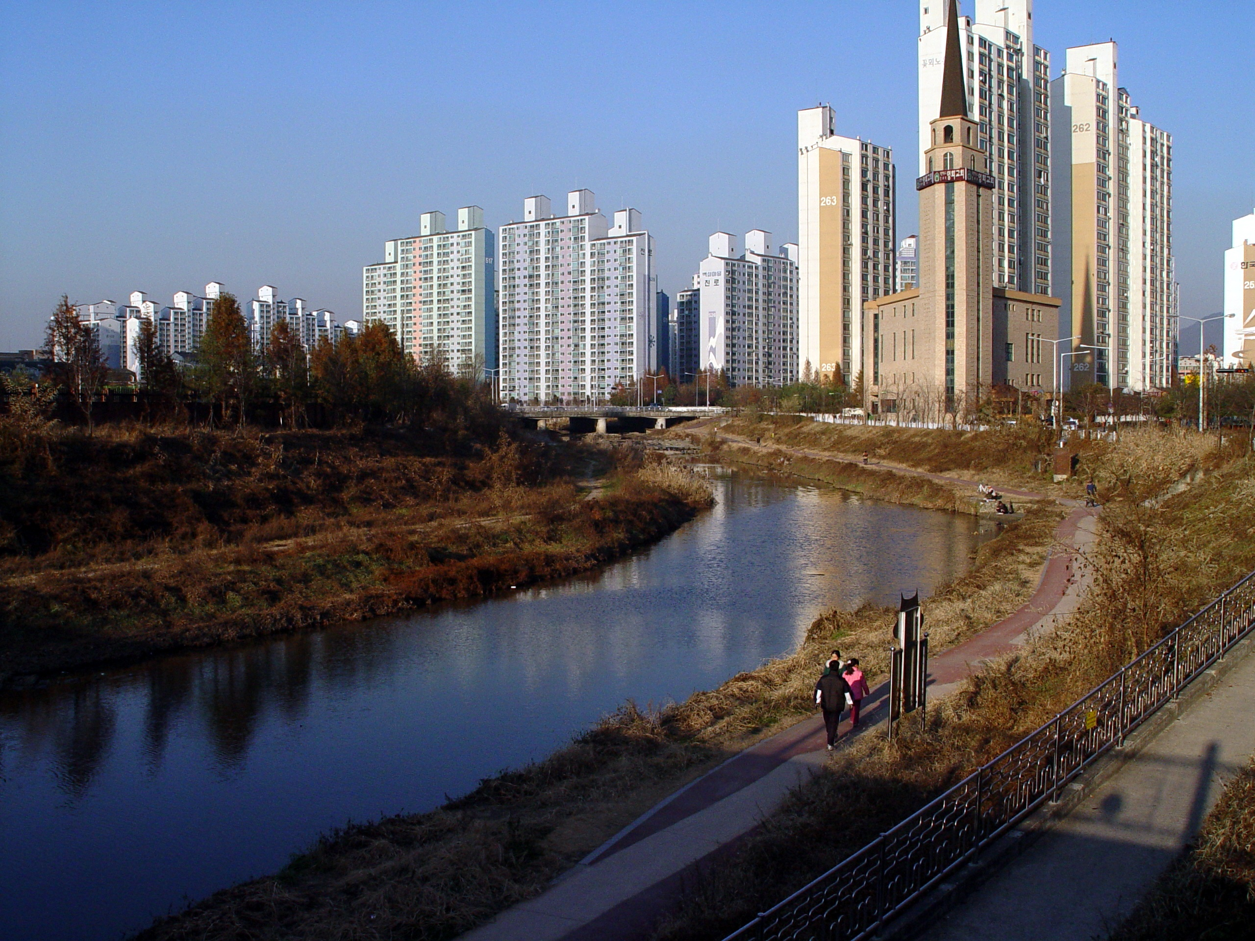 Jungbocheon_-_Looking_upstream_from_Ggochmoibeodeulgyo_(Bridge)_to_Hanmarugyo_(Bridge),_Suwon